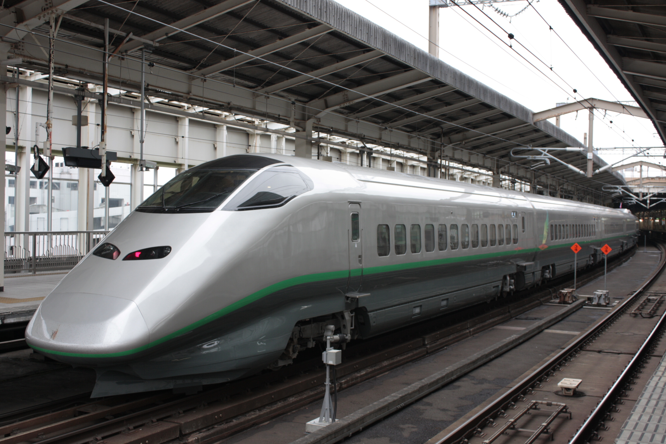 Shinkansen E3-2000 (Taken at Sendai Staiton)